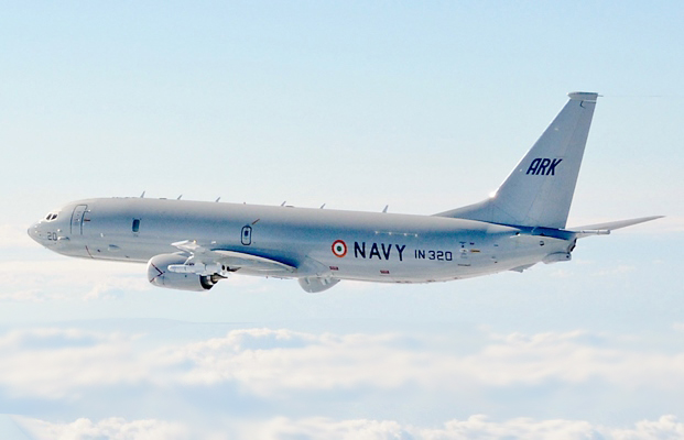 oeing P-8I of the Indian Navy